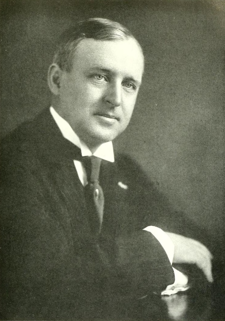 Ambrose Kennedy (Rhode Island Congressman)